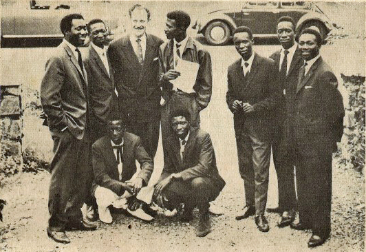 Musicians of African Jazz announce a reunion, in picture with other man.